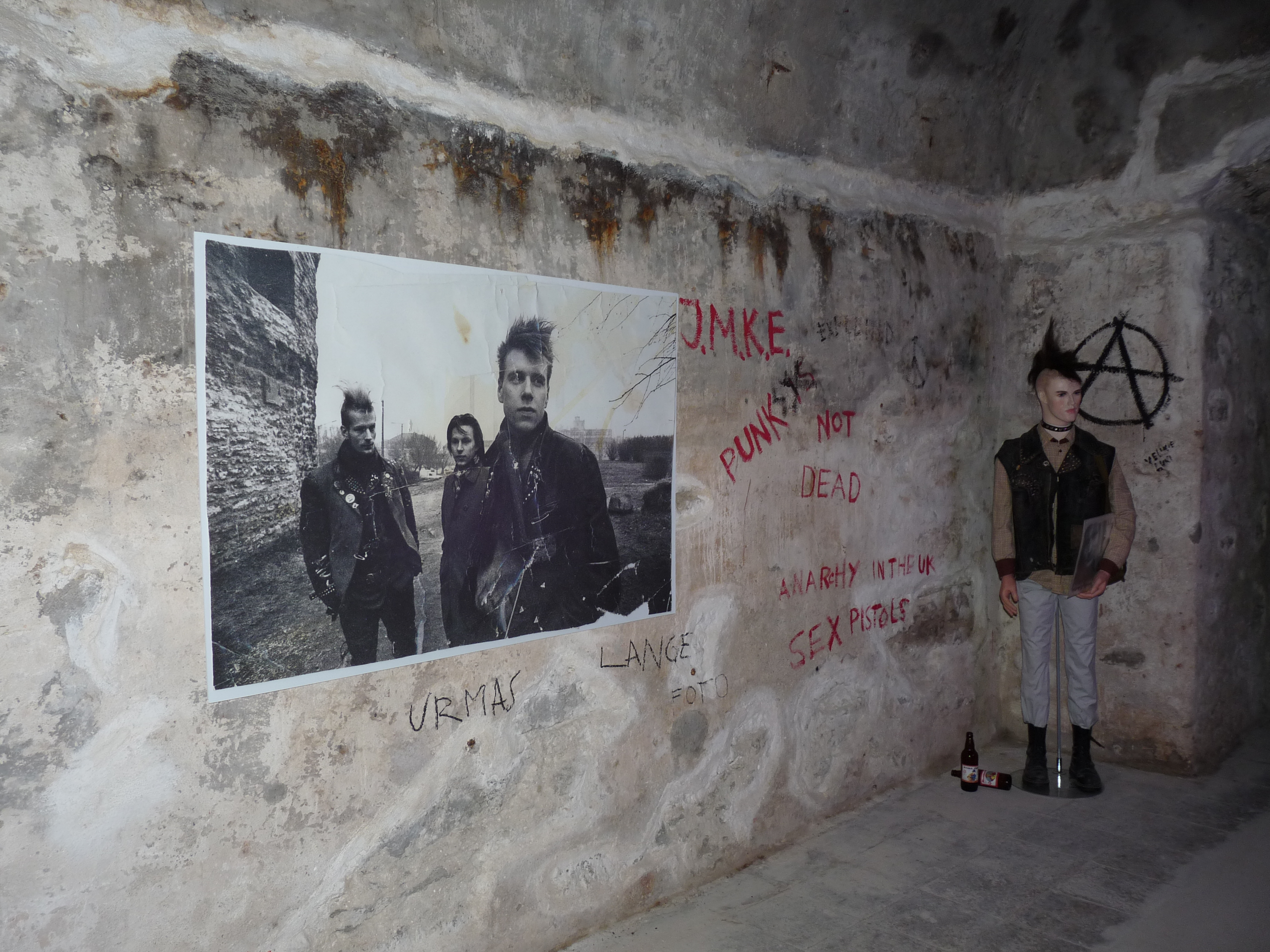 In 1988 Kiek in de Kök's underground was used as punks club